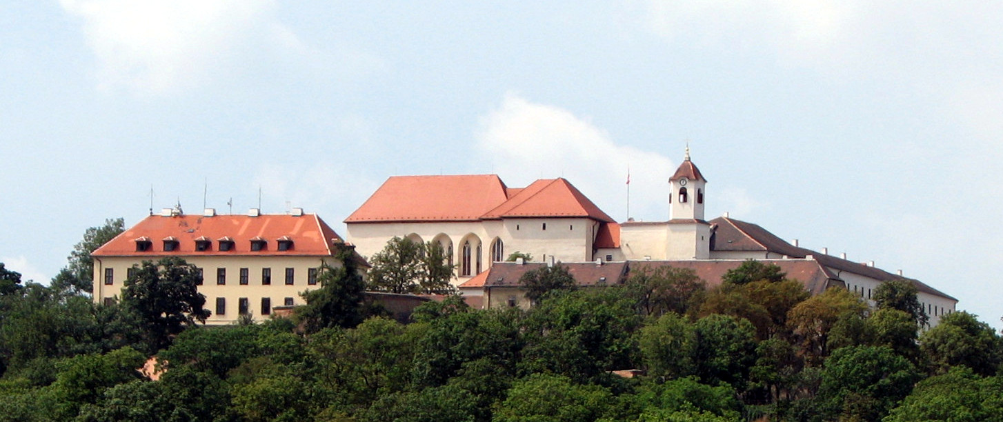 Špilberk Castle, view from the roof of Dům pánů z Lipé house